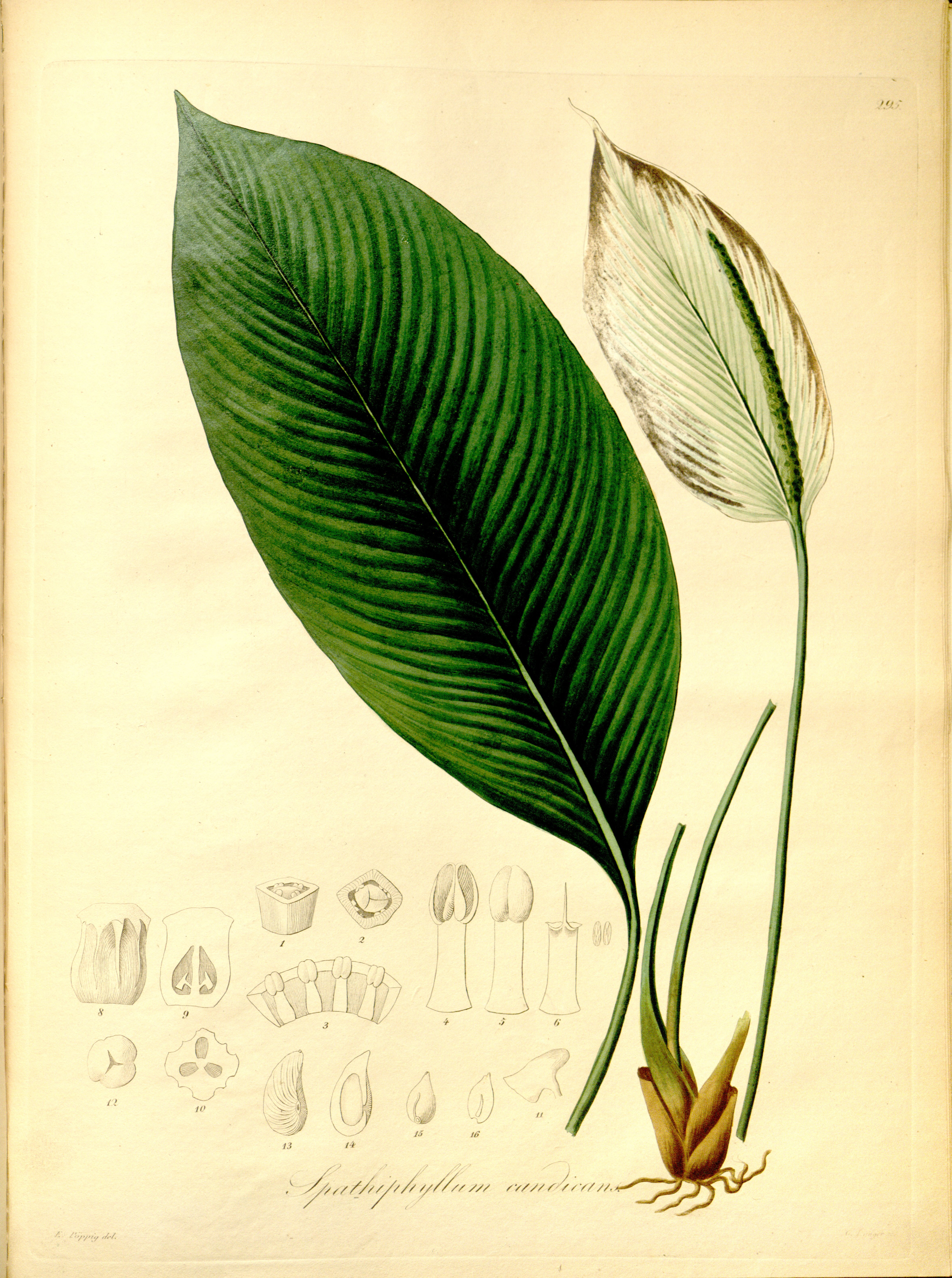 Spathiphyllum candicans (= Spathiphyllum cannifolium)